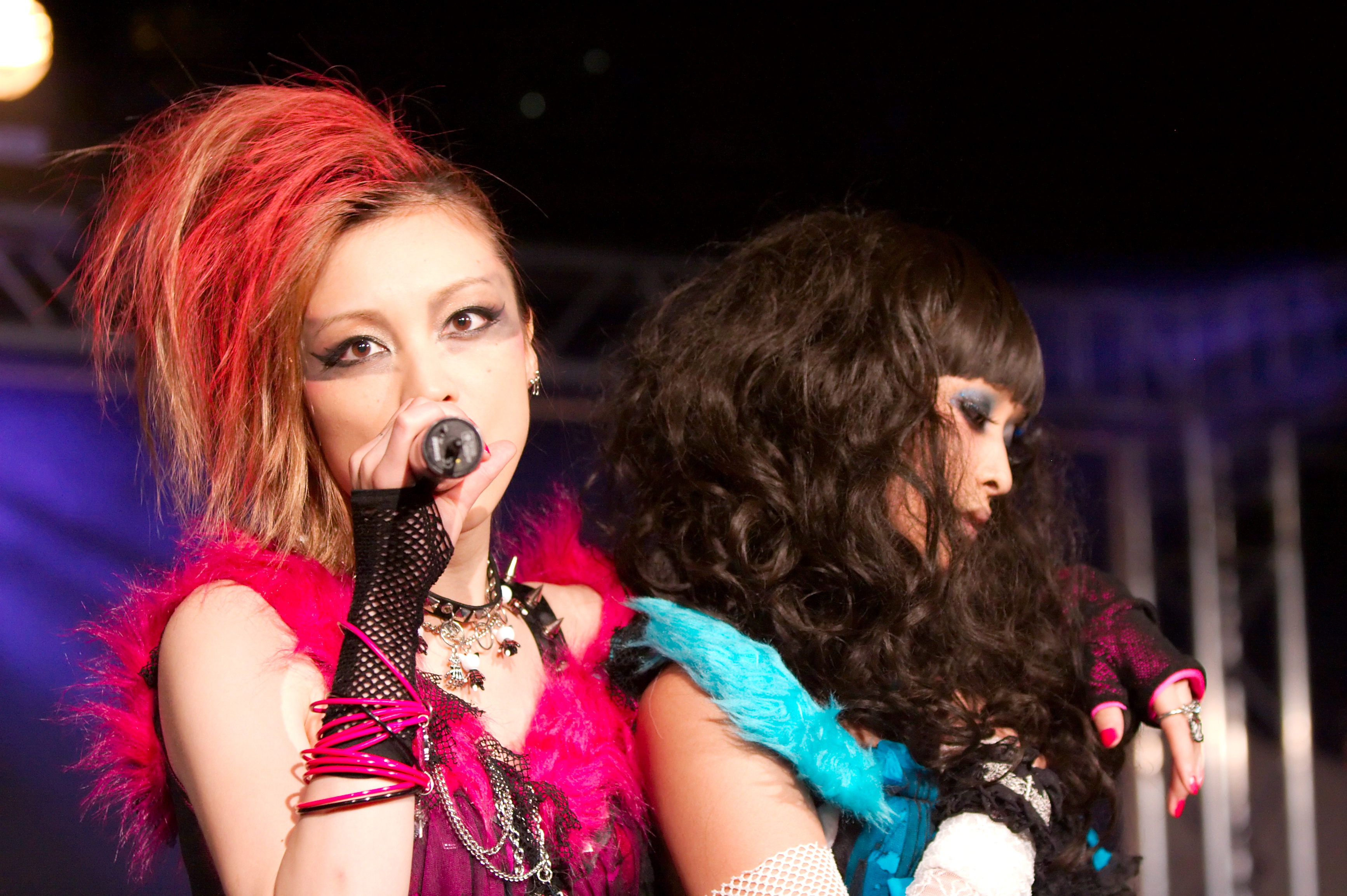 Hangry & Angry live at Chibi Japan Expo 2009 (Paris, France).